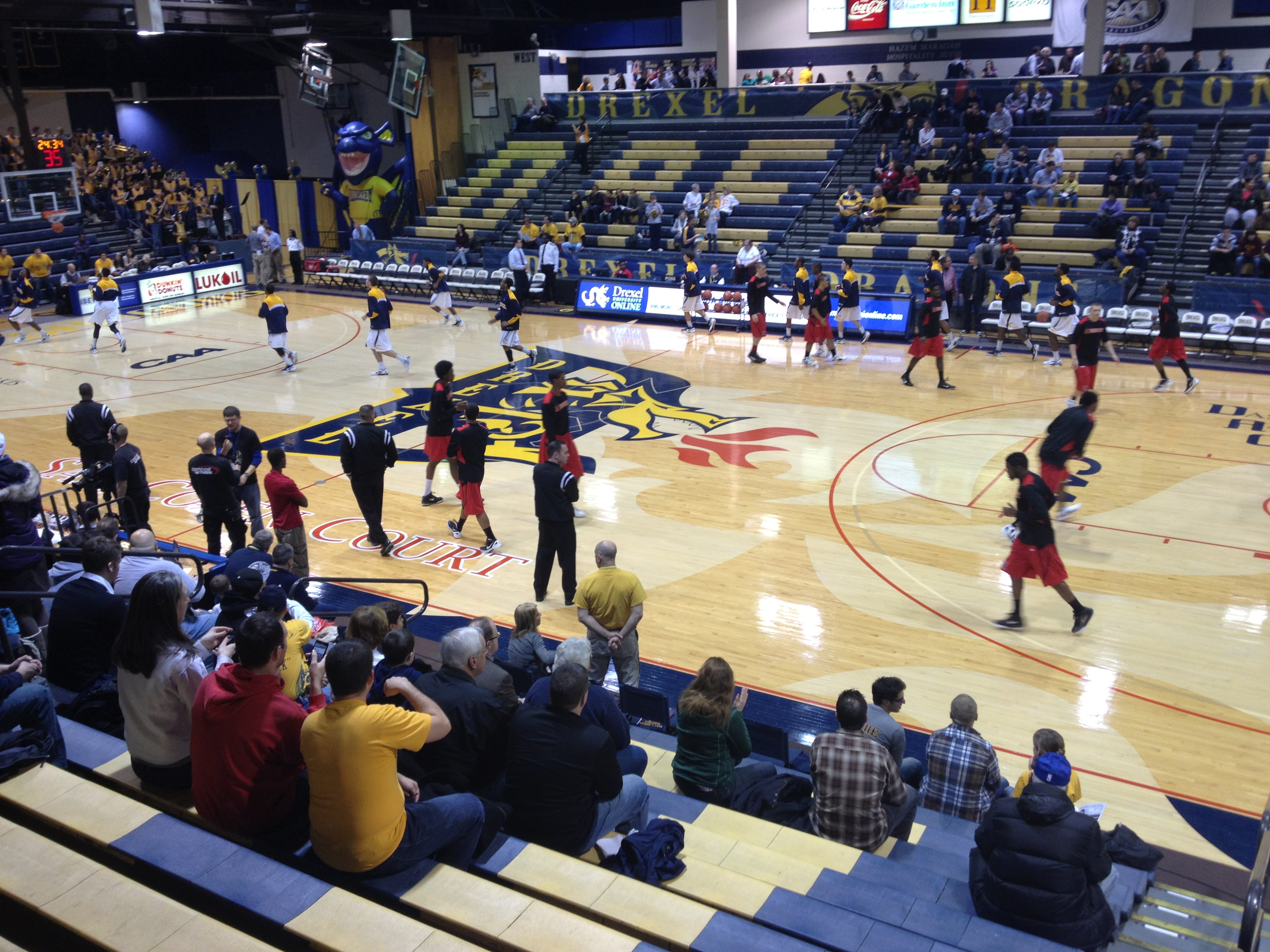 Photo taken inside the Daskalakis Athletic Center at Drexel University prior to a basketball game on Saturday, January 21, 2012 between the Drexel Dragons and the Northeastern Huskies.